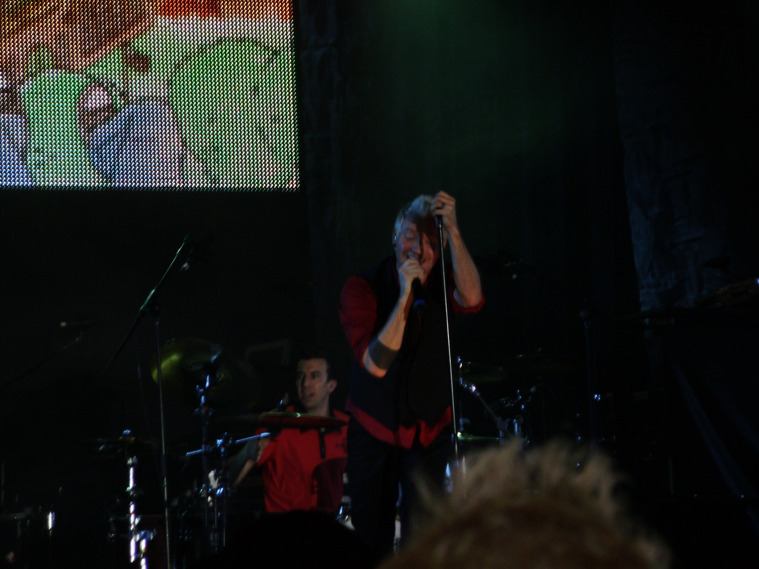 FM Static playing in New York